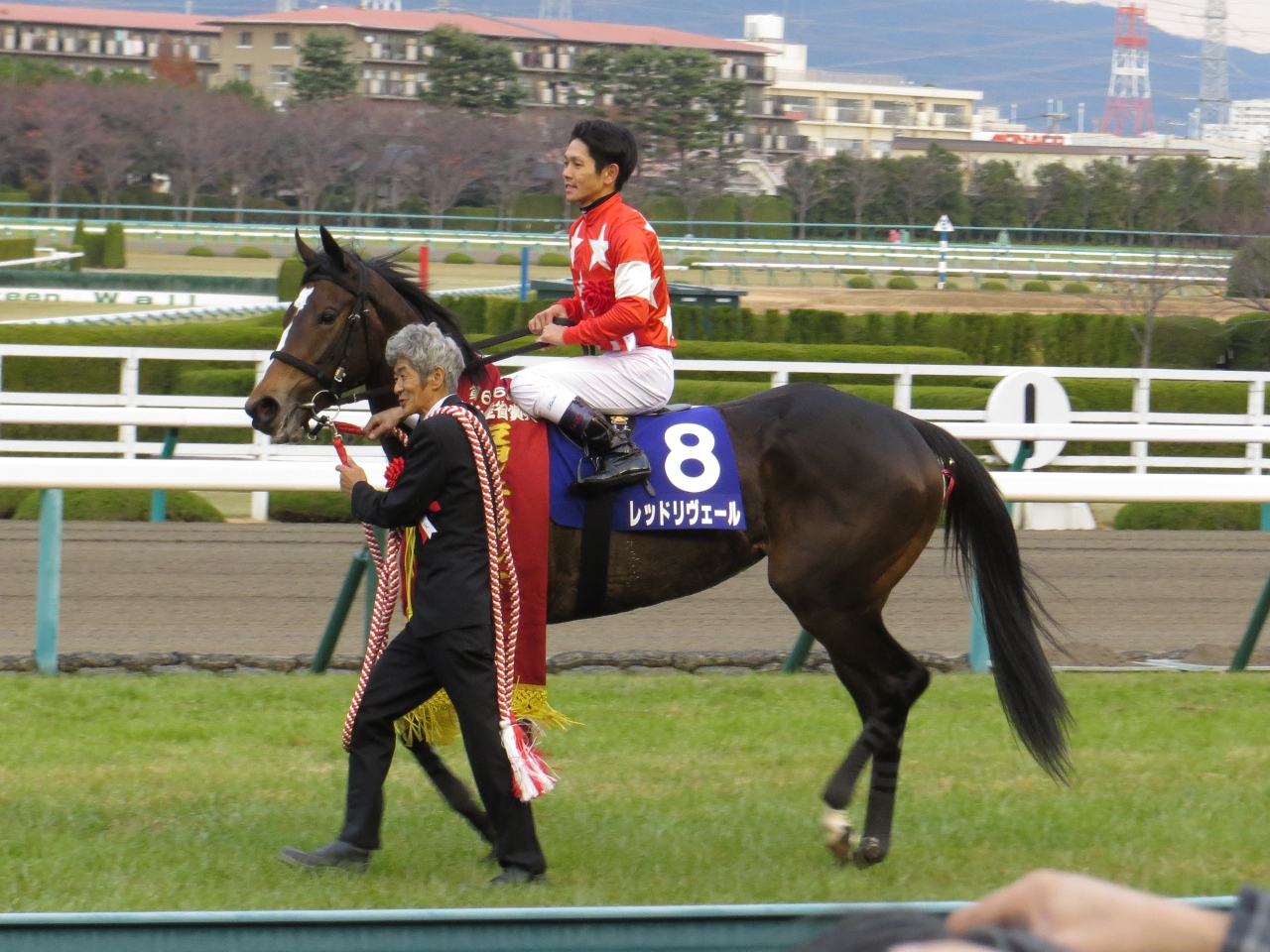 Red Reveur (Racehorse of Japan).